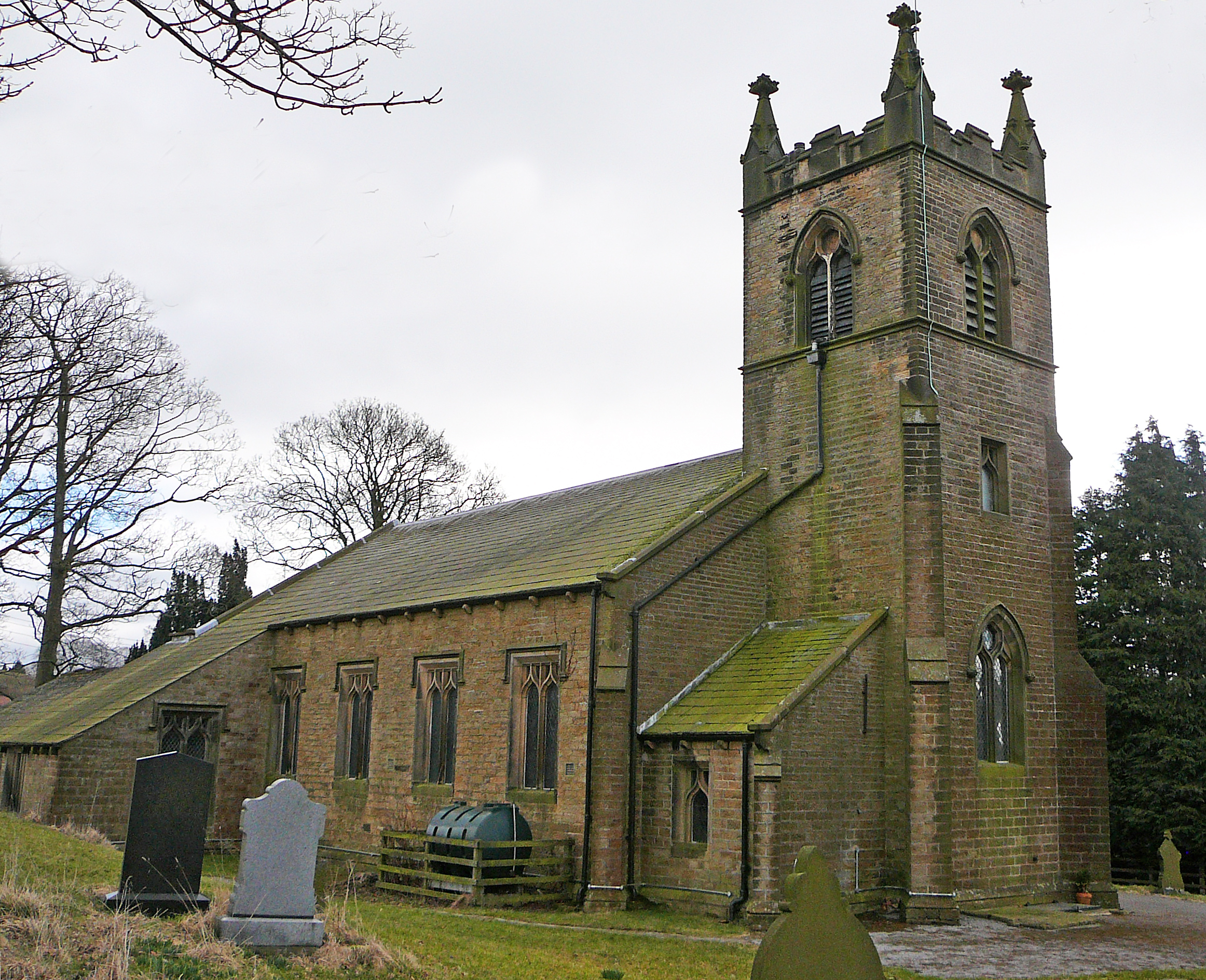 Christ Church parish church, Lothersdale, North Yorkshire, seen from the northwest